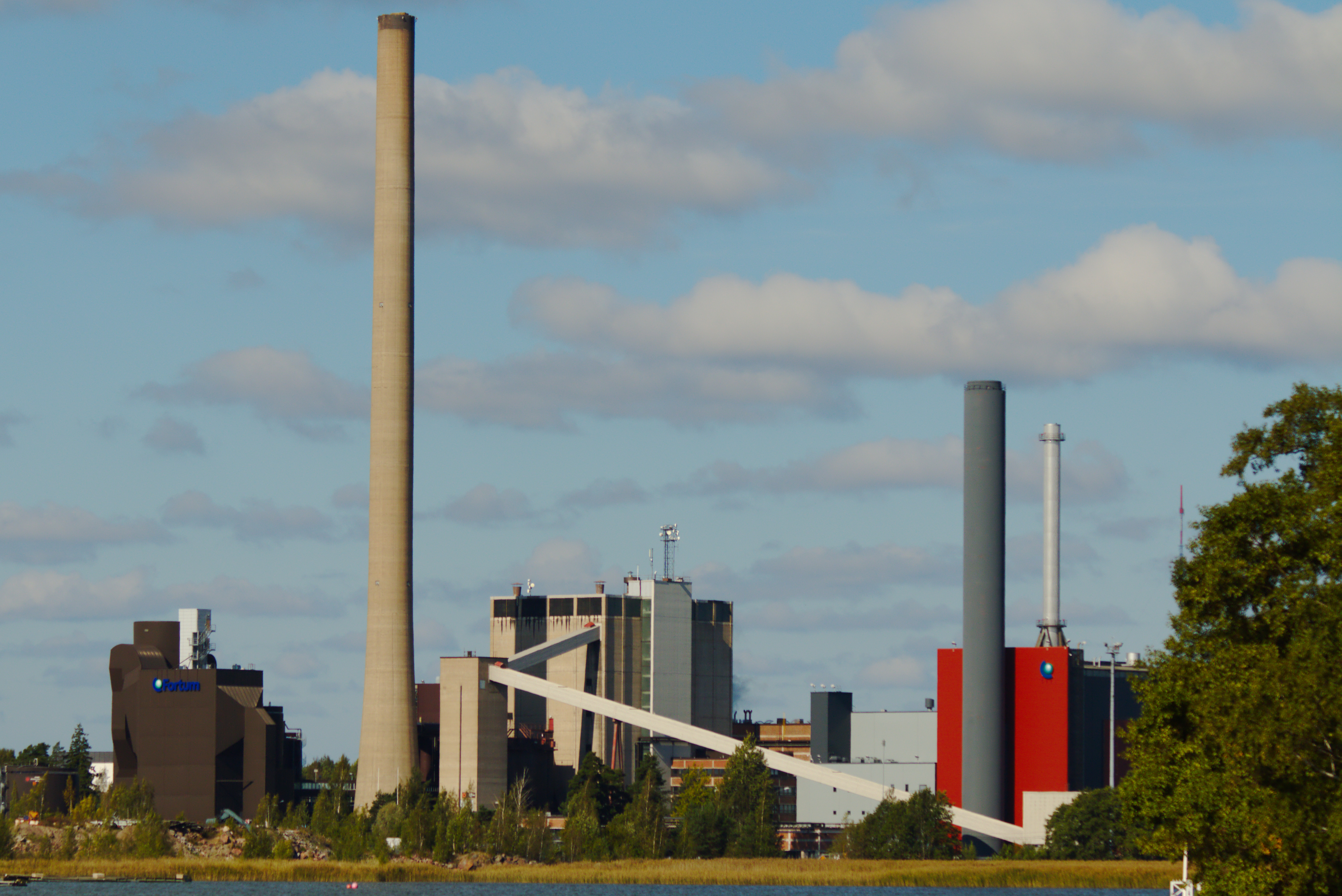 Suomenoja power plant in Espoo, Finland